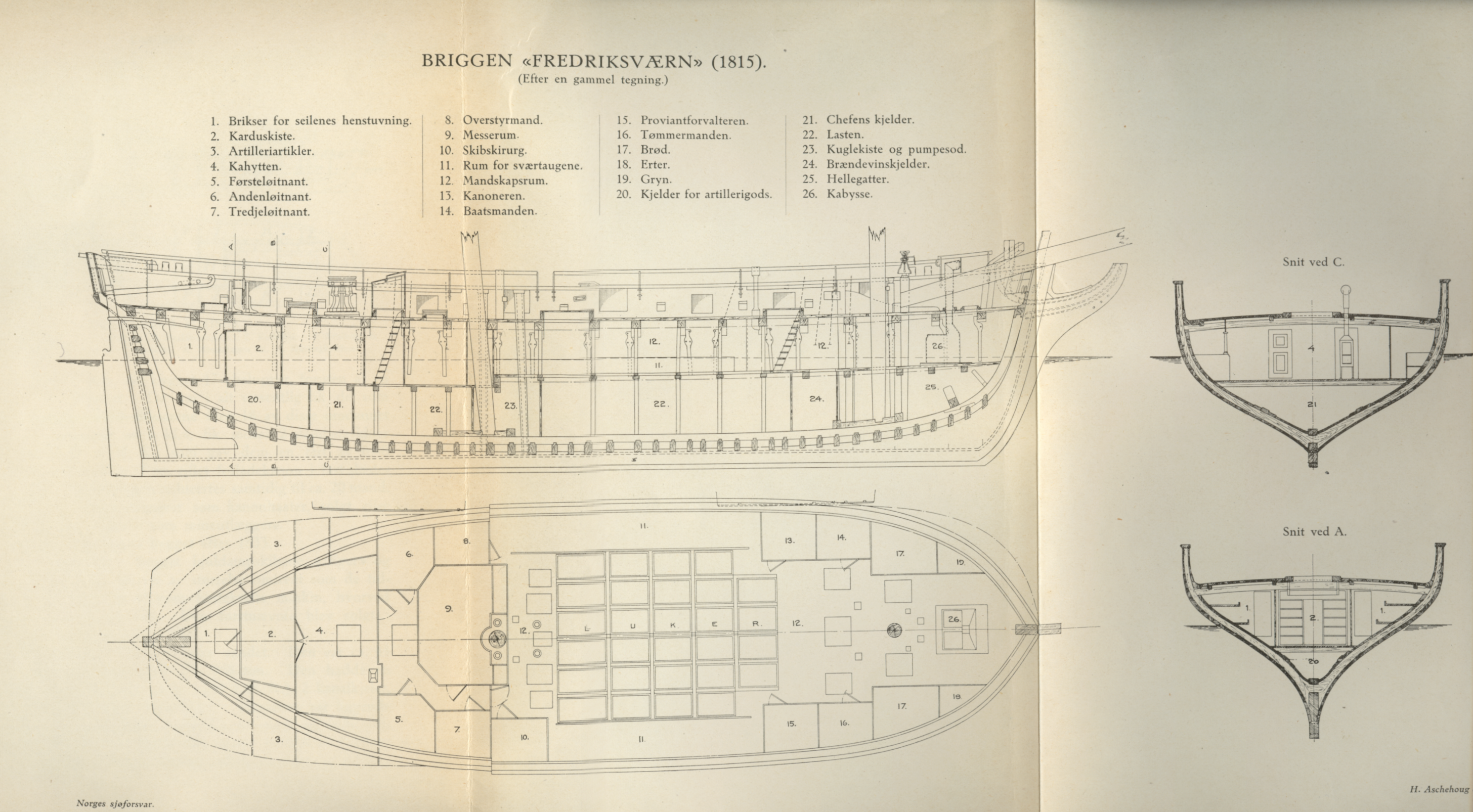 The brig Fredriksværn, built and launched in 1815 for the Norwegian Navy.